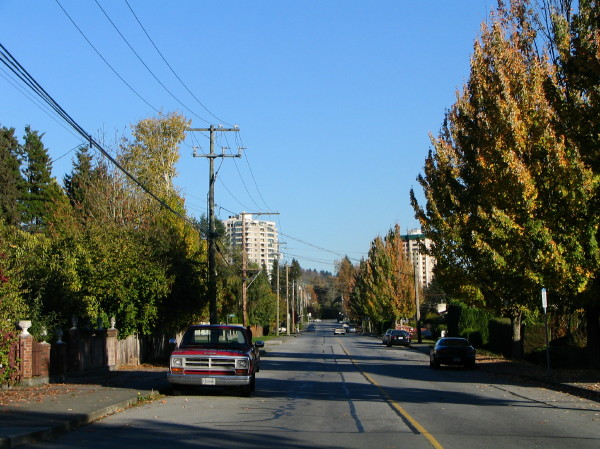 This image was created by me, Flying Penguin of Pacific Spirit Photography ( of Burnaby, BC Canada